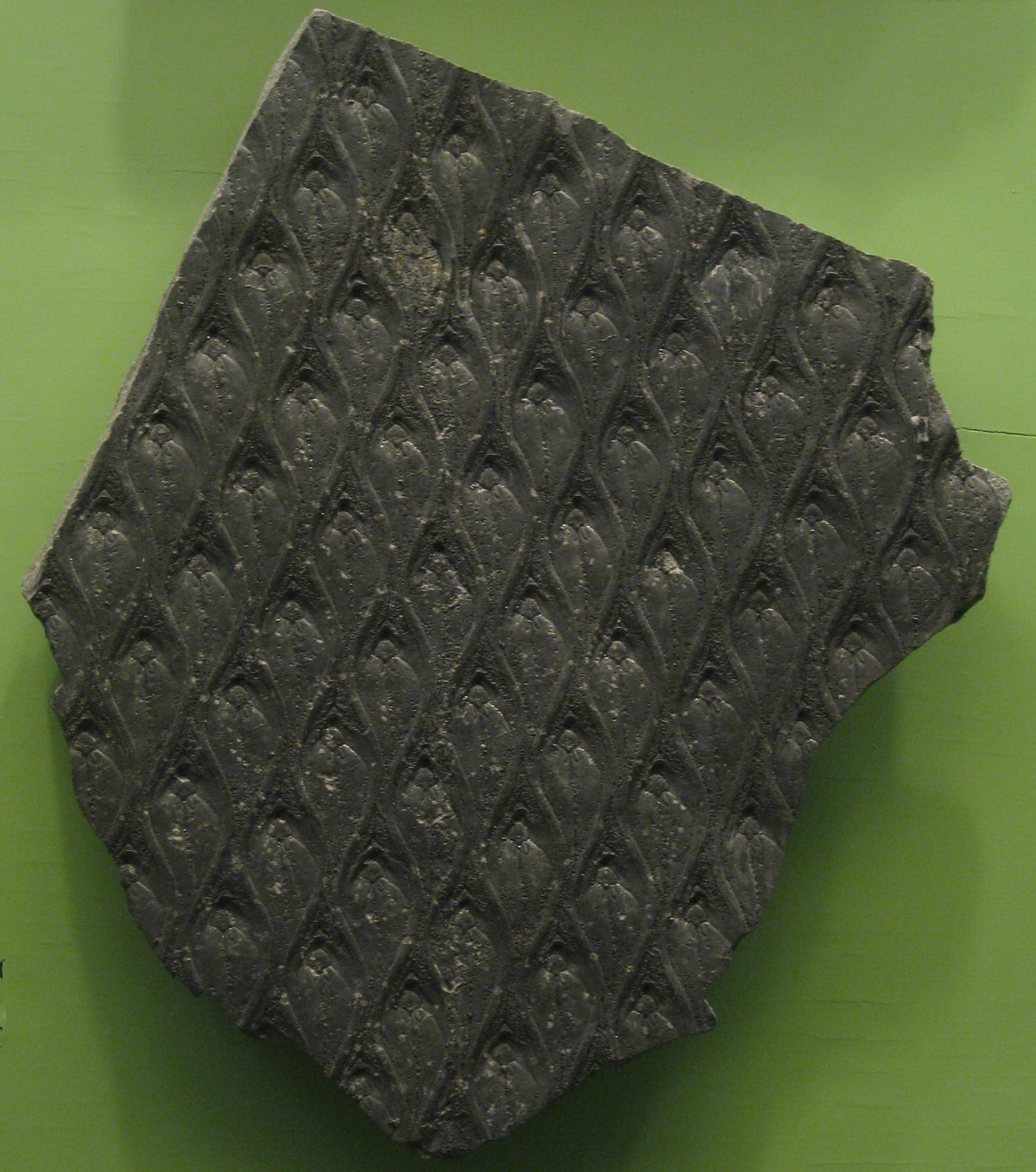 Lepidodendron (fossil tree) on display at the State Museum of Pennsylvania